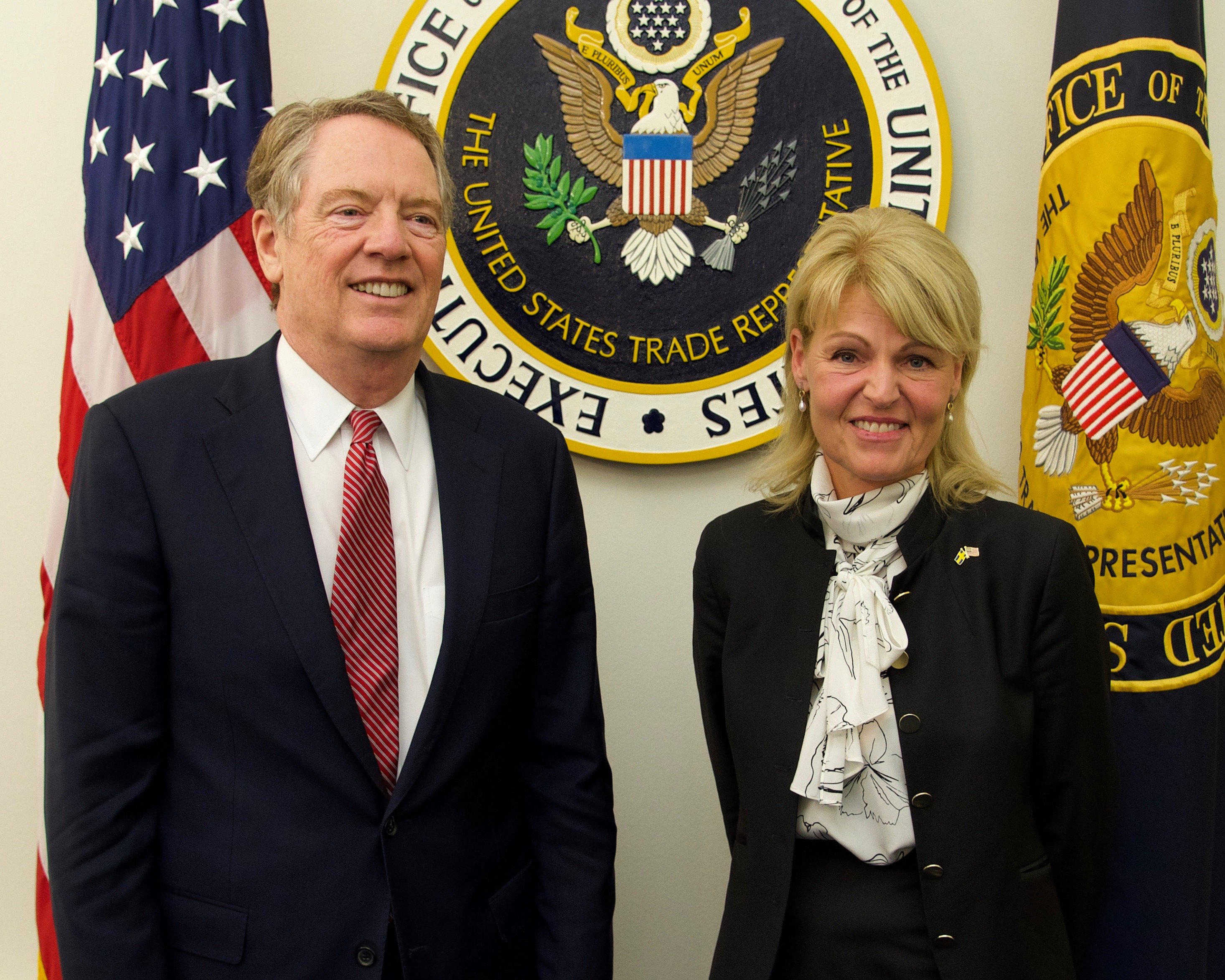 In 2018, U.S. goods exports to Sweden totaled $4.5 Billion. USTR Lighthizer met with Swedish Minister Hallberg today in Washington, D.C. to discuss strengthening U.S.-Sweden trade.